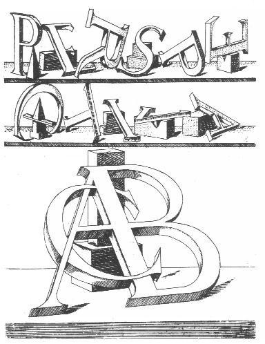 Perspectiva Literaria by Johannes Lencker, Cover